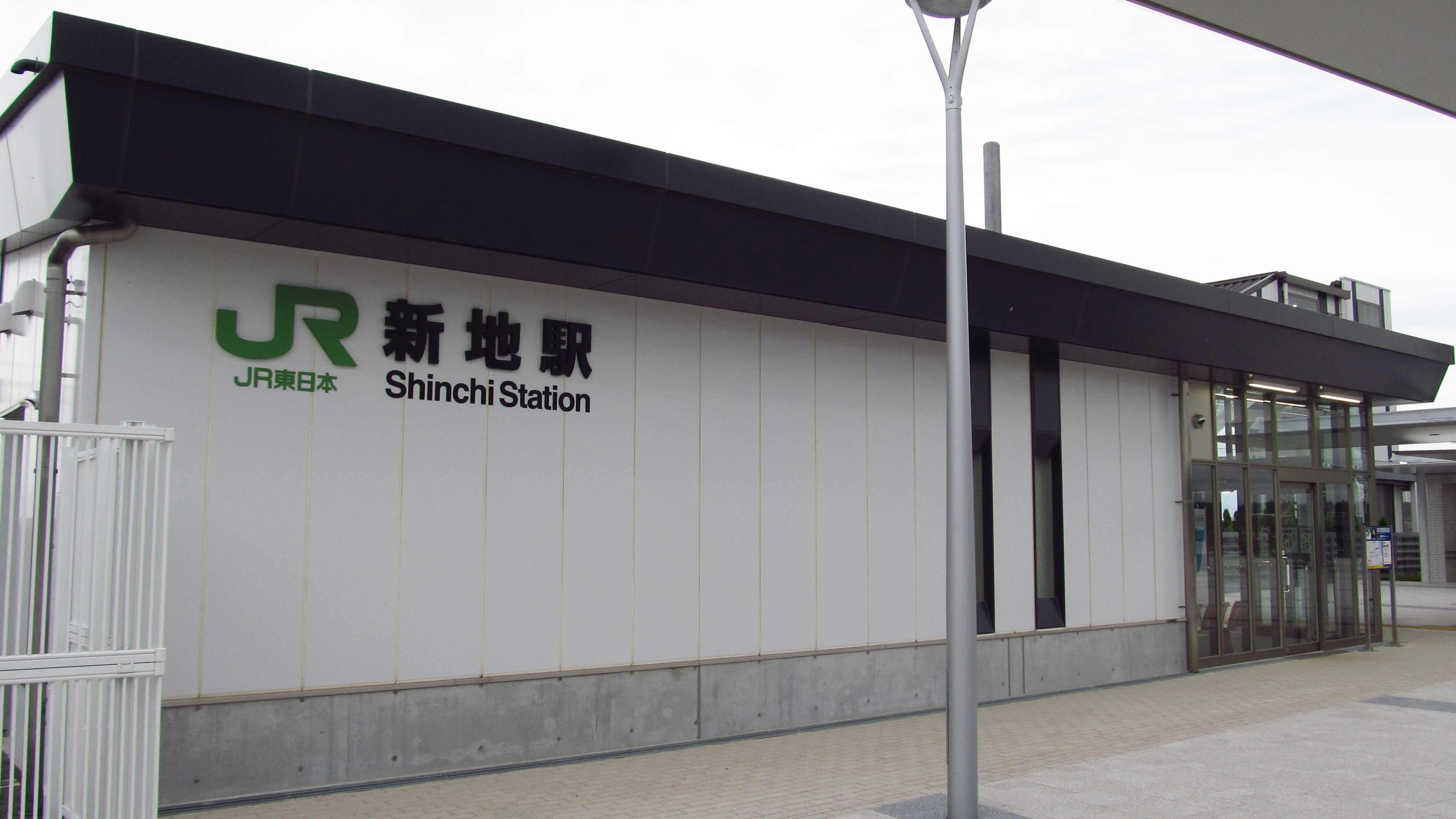 The building of Shinchi Station on the Jōban Line in Fukushima Prefecture, Japan